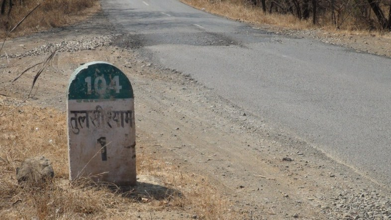 anti gravity work